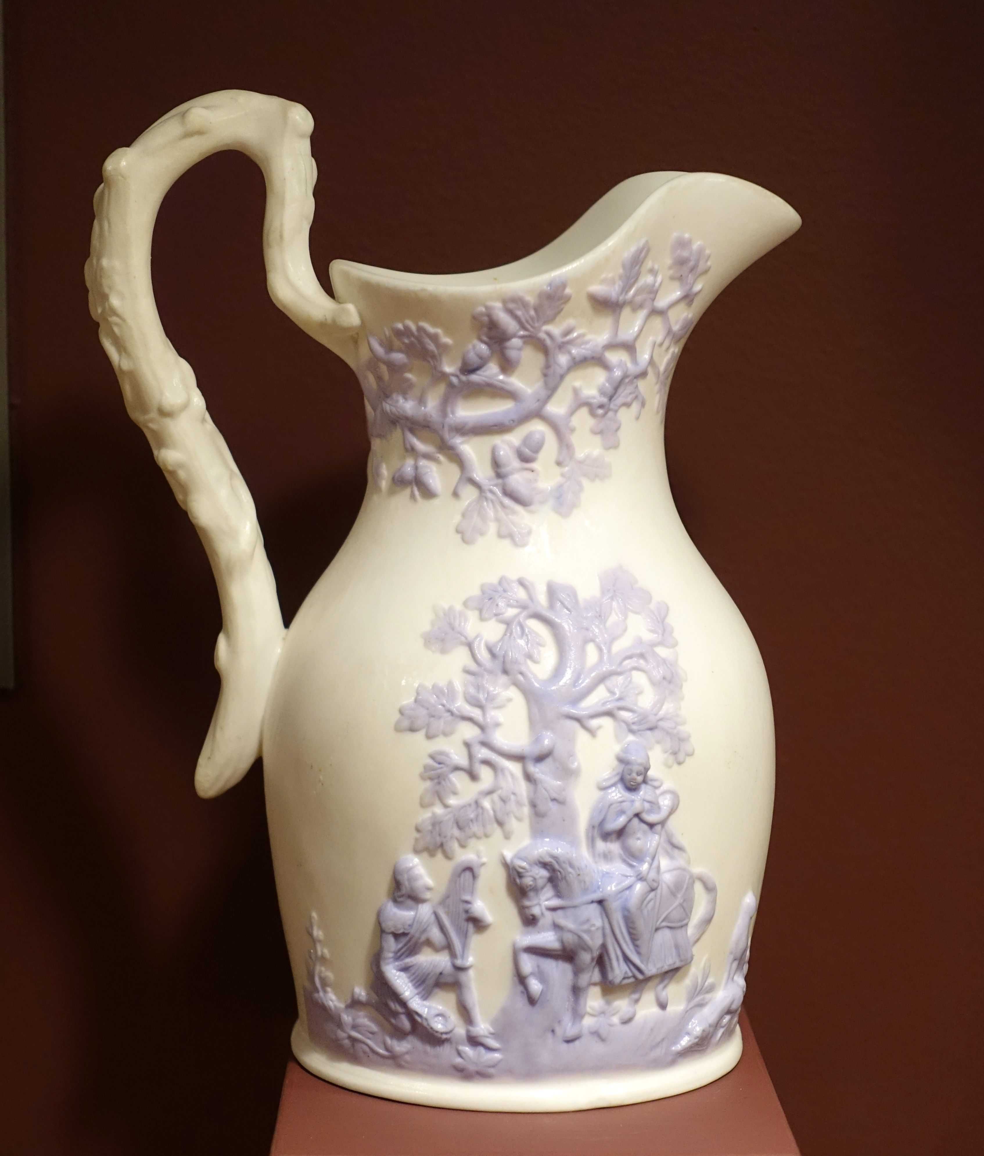 Exhibit in the Bennington Museum - Bennington, Vermont, USA. This work is in the public domain because the artist died more than 70 years ago.